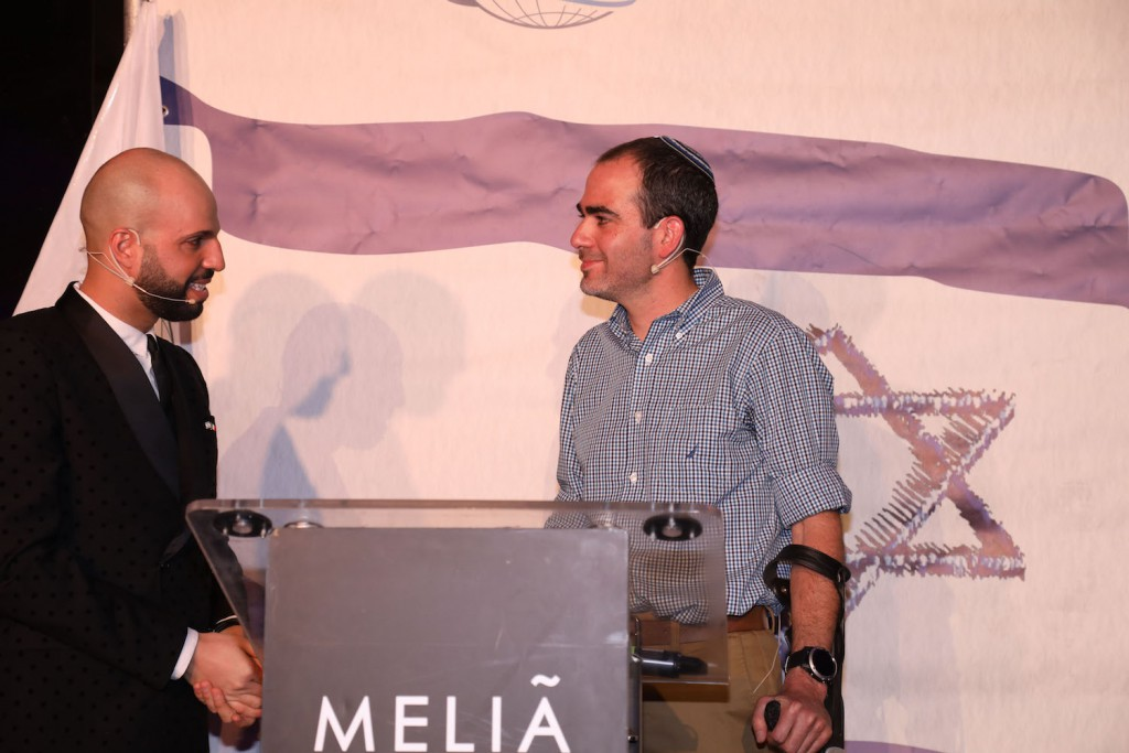 Keren Haysod Italy- TV presenter Jonathan Kashanian and Israeli physician-writer Dr. Asael Lubotzky - during the annual celebration of Keren Hayesod in Milan.